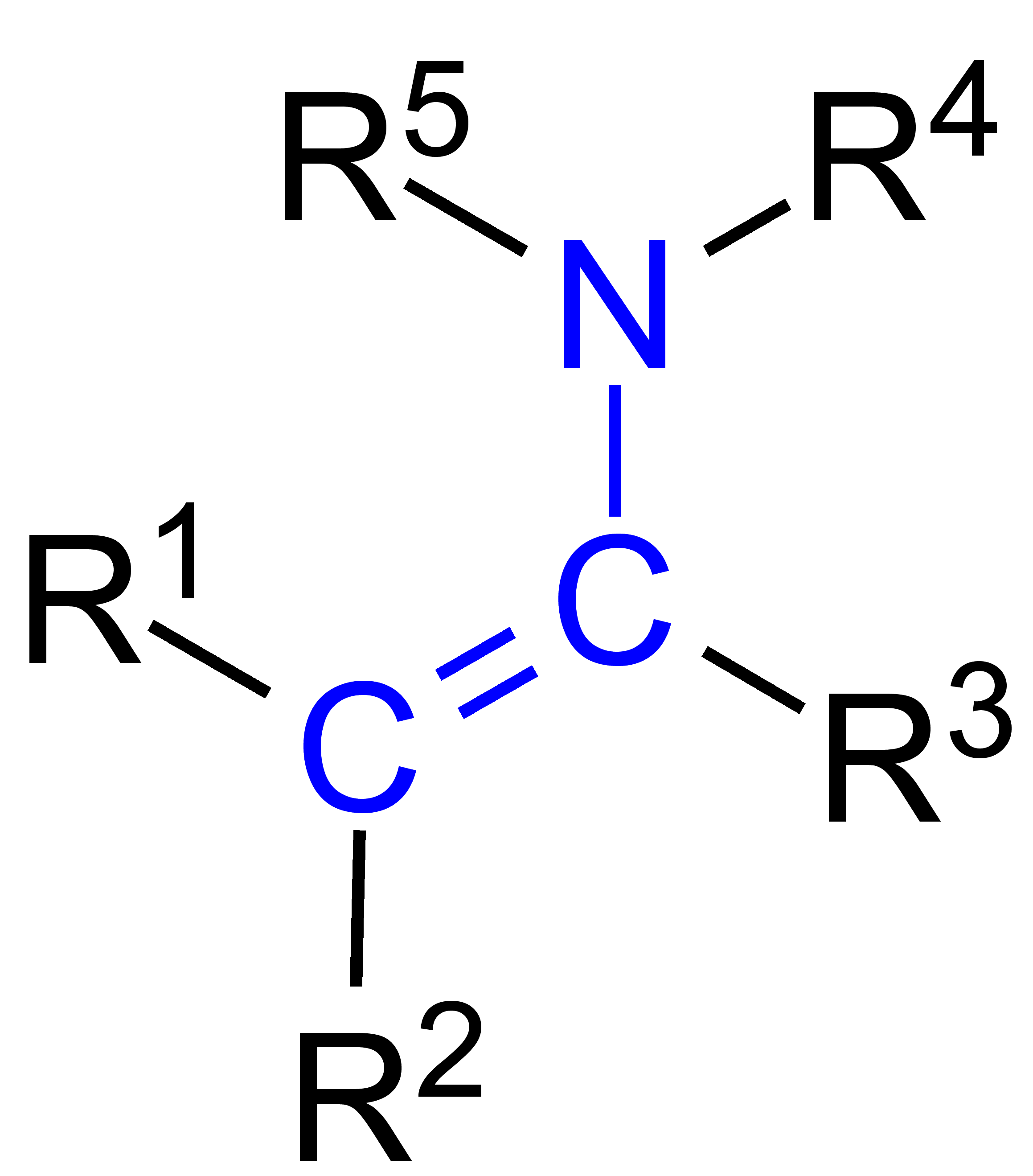 Enamine_General_Structure